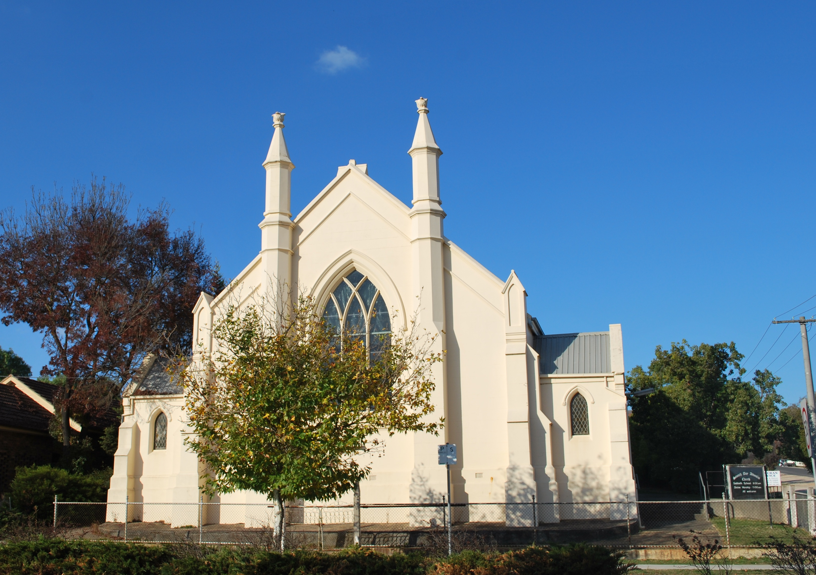 Seventh Day Adventist church at Castlemaine, Victoria